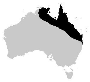 The range of the Cane Toad (Bufo marinus) in Australia.